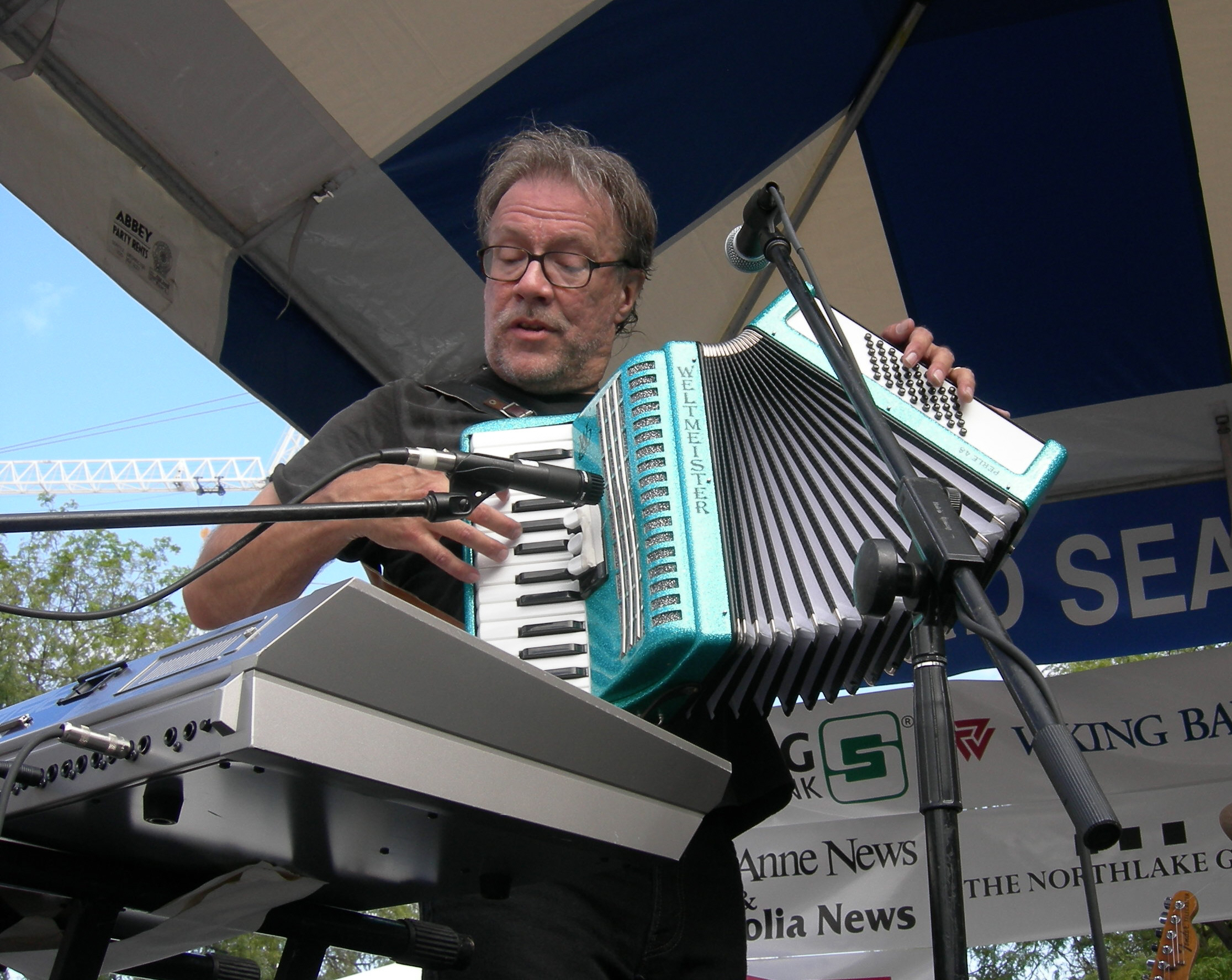 Multi-instrumentalist Carl Finch (mainly keyboards and accordion) of the Texas band Brave Combo, playing at the Ballard Seafood Fest (in the Ballard neighborhood of Seattle, Washington).